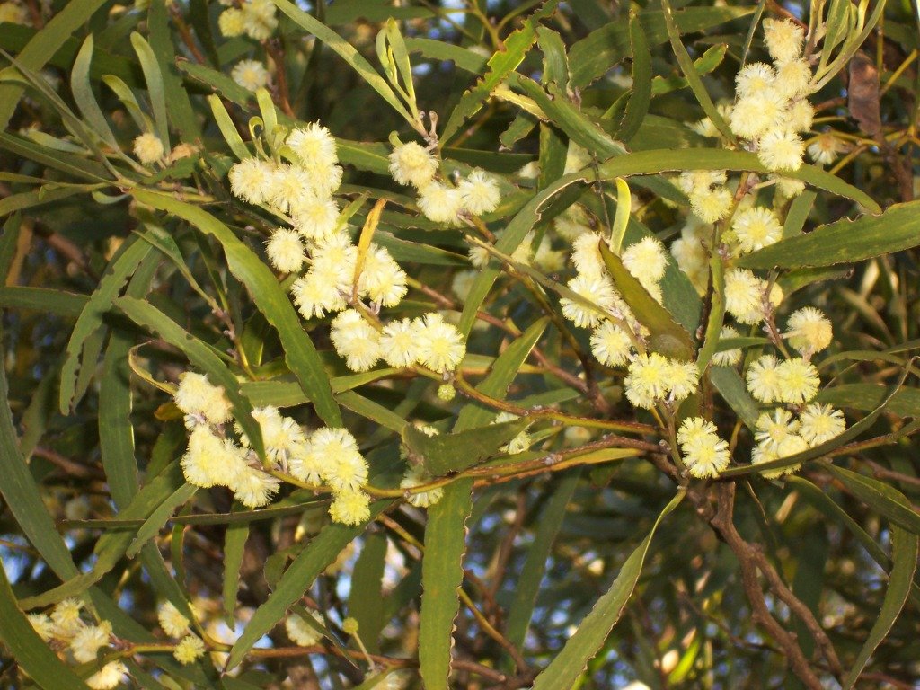 Réunion mountain tamarin (Acacia heterophylla) - Flowers (Réunion island)